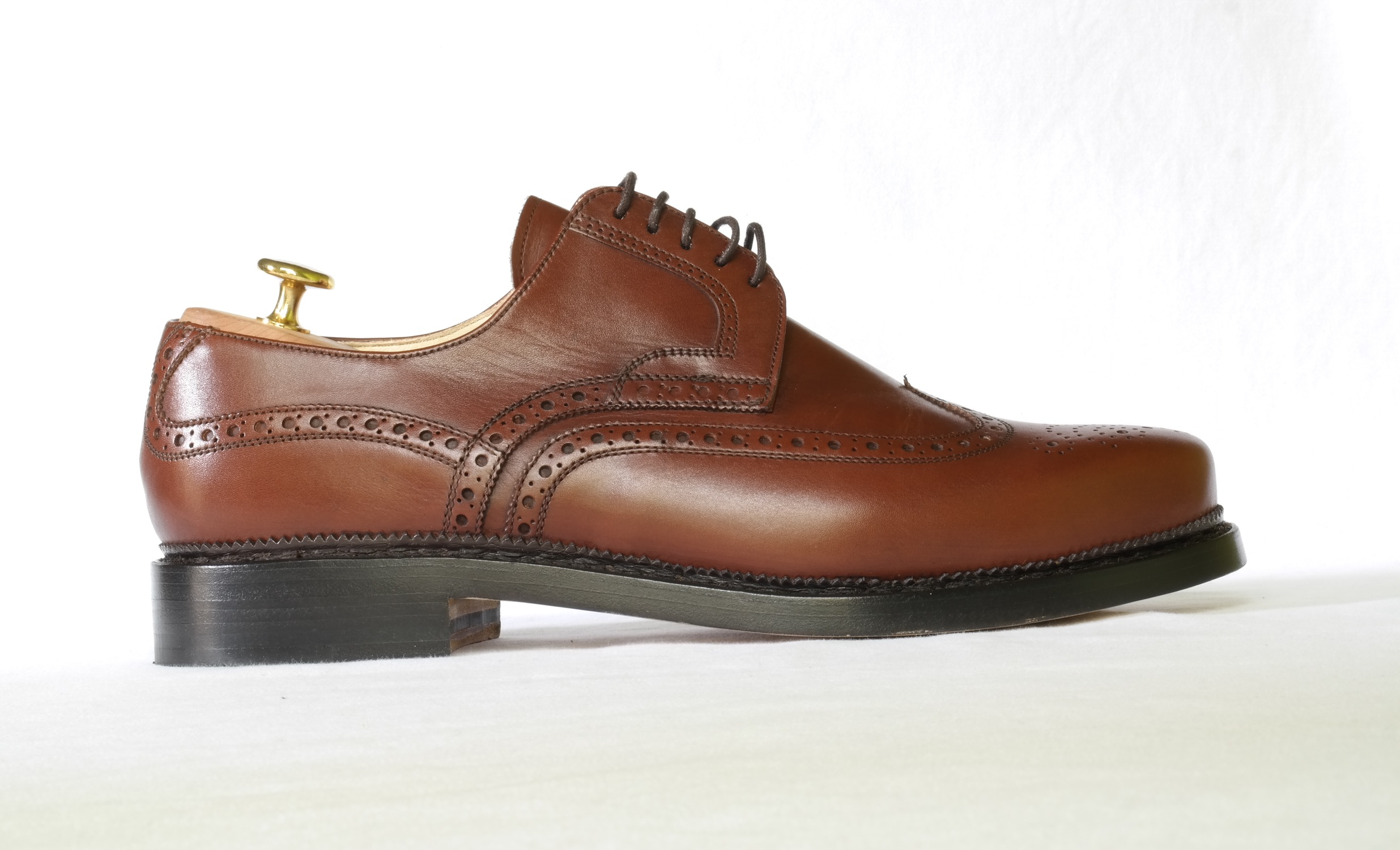 A typical Budapester shoe